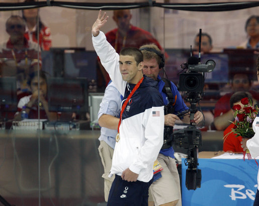 after winning the 400-meter Individual Medley in world-record time at the 2008 Summer Olympics in Beijing